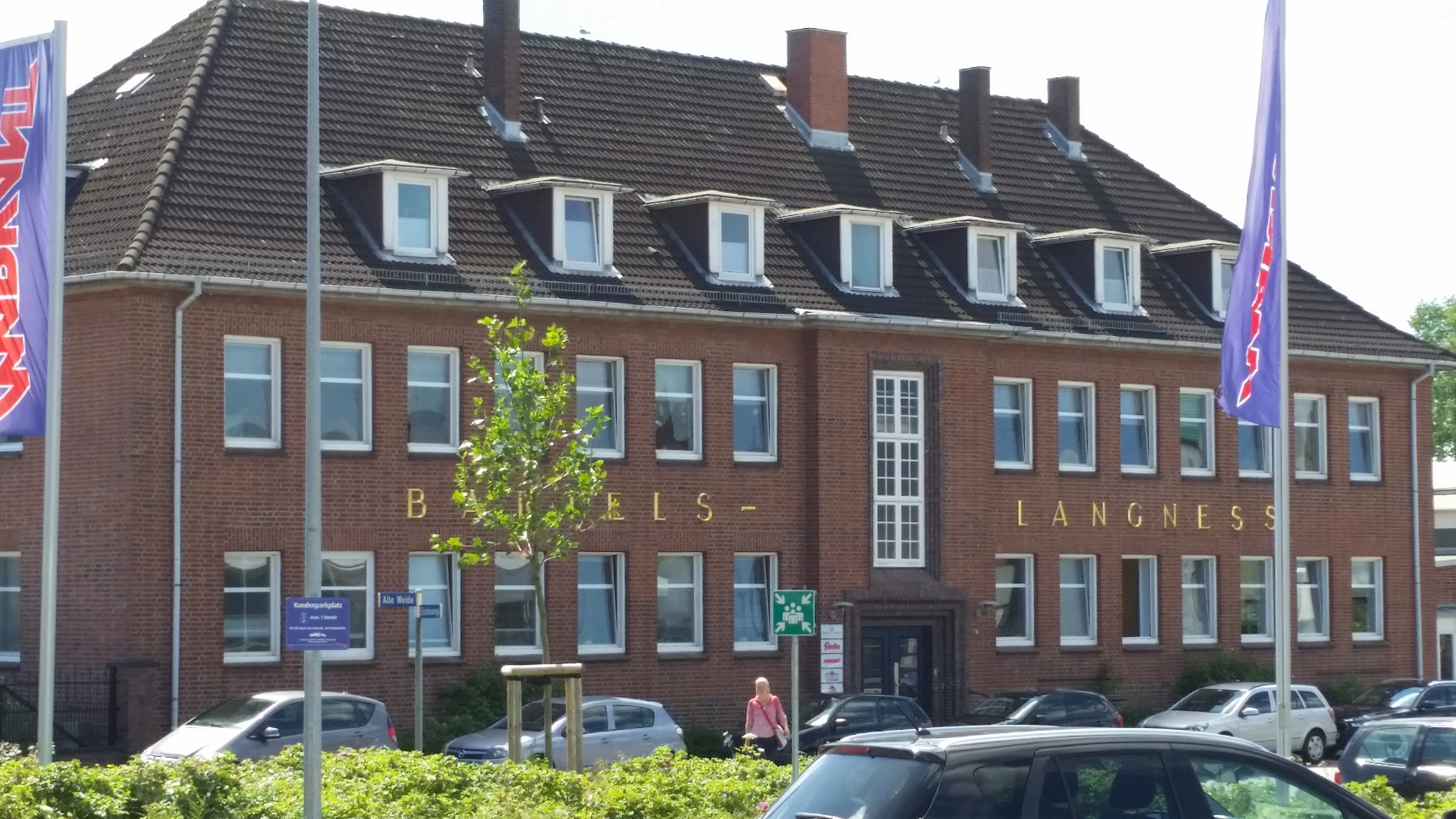 Bartels-Langness headquarters